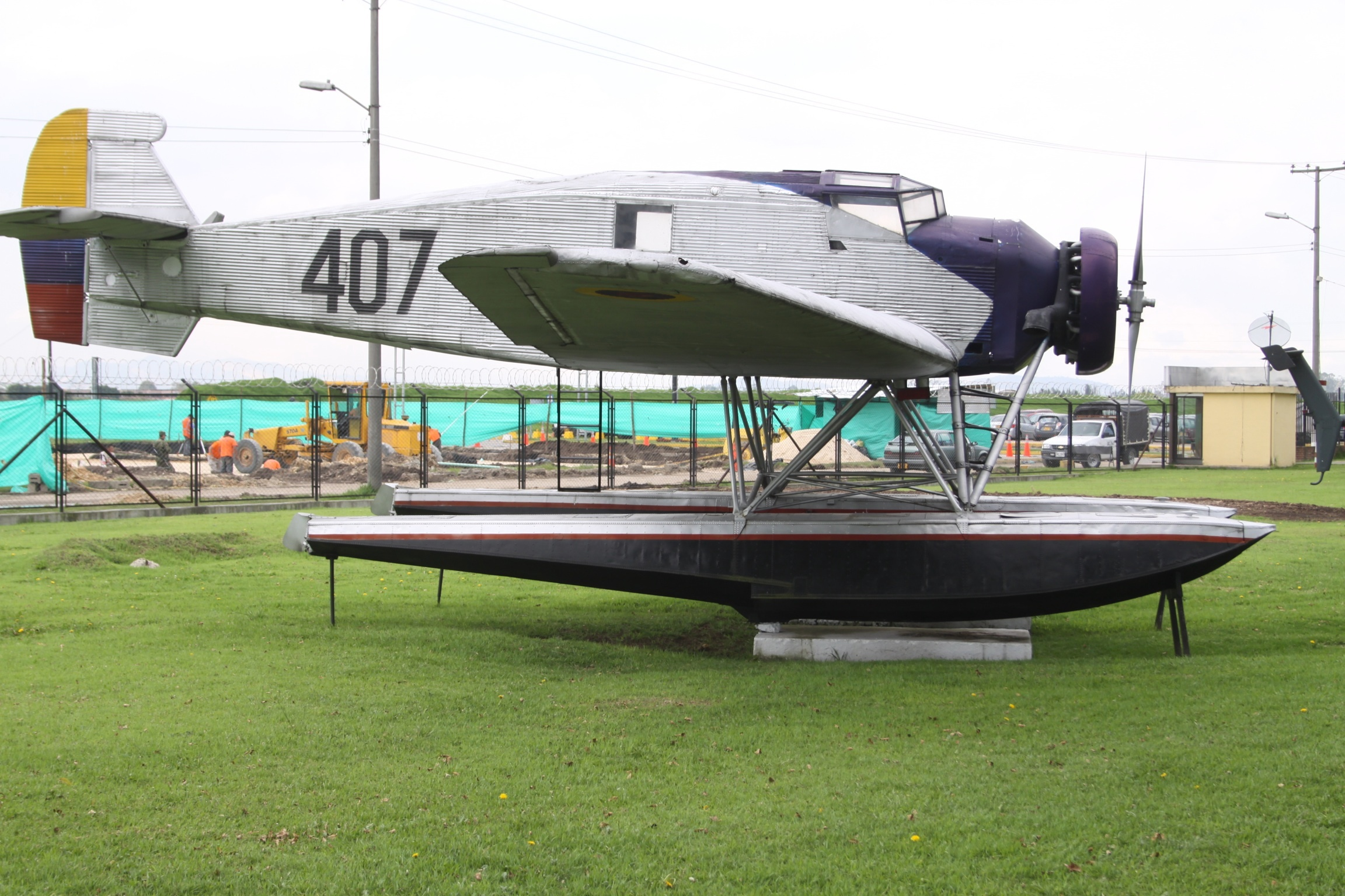 At Bogota El Dorado International